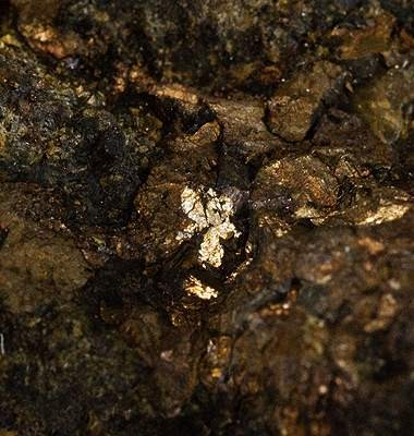 Cubanite, Maucherite, Valleriite Locality: Mackinaw Mine (Weden Creek Mine), Monte Cristo, Monte Cristo District, Snohomish County, Washington, USA (Locality at ) Size: 12.6 x 9.2 x 5.1 cm. A hefty ore specimen, with probably tons of material stuck inside it as well as what you see on the outside, judging by the look of it. I think the cubanite (and associated more rare species) fills thin fracture seams within. On the exposed main face, there are dozens of thin, flat-lying cubanite crystals to 7mm in size. Apparently this specimen was exchanged to the Academy by the Smithsonian. Ex. Philadelphia Academy of Sciences and Smithsonian Institution Collections.